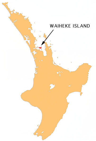 Location map of Waiheke Island, New Zealand